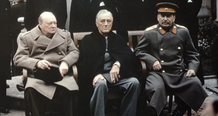 The Yalta Conference, Crimea, February 1945 The Prime Minister, the Rt Hon Winston Churchill, MP the President of the United States, Mr Franklin Roosevelt Marshal Joseph Stalin of the Soviet Union photographed in the grounds of the Livadia Palace, Yalta during the eight day Yalta Conference. Standing behind the three leaders are, left to right: the British Foreign Secretary, the Rt Hon Anthony Eden, MP the American Secretary of State, Mr Edward Stettinius the British Permanent Under-Secretary of State for Foreign Affairs, the Rt Hon Sir Alexander Cadogan the Soviet Commissar for Foreign Affairs, Mr Vyacheslav Molotov the American Ambassador in Moscow, Mr Averell Harriman